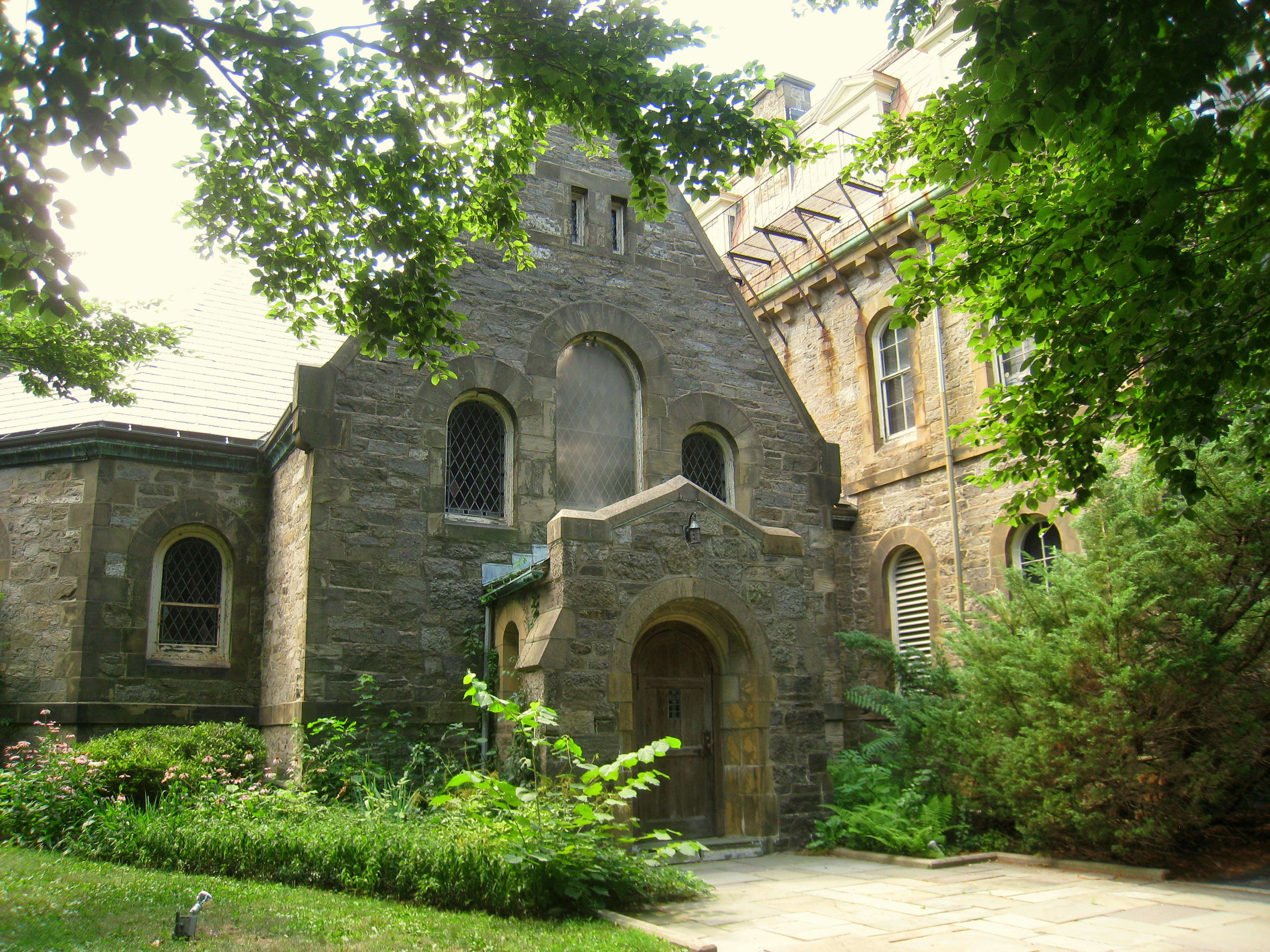 Colby Chapel, Andover Newton Theological School, 210 Herrick Road, Newton Centre, Massachusetts, USA.